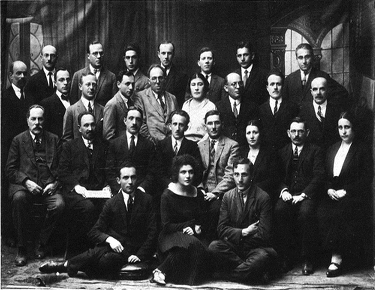 The Kaunas Hebrew Realgymnasium faculty, apparently c. the late 1920s.